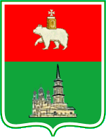 Coat of Arms of Permsky rayon, Perm krai, Russia, 2001